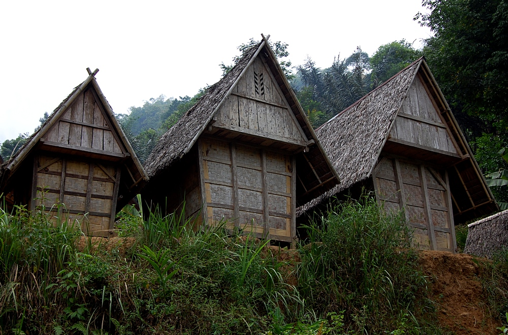 Leuit, traditional Sundanese rice barn at Sirnarasa, a Kasepuhan village near Palabuhanratu, Sukabumi, West Java